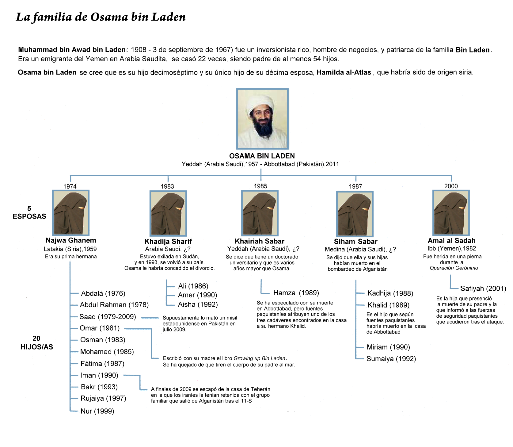 Osama Bin Laden genealogy family tree